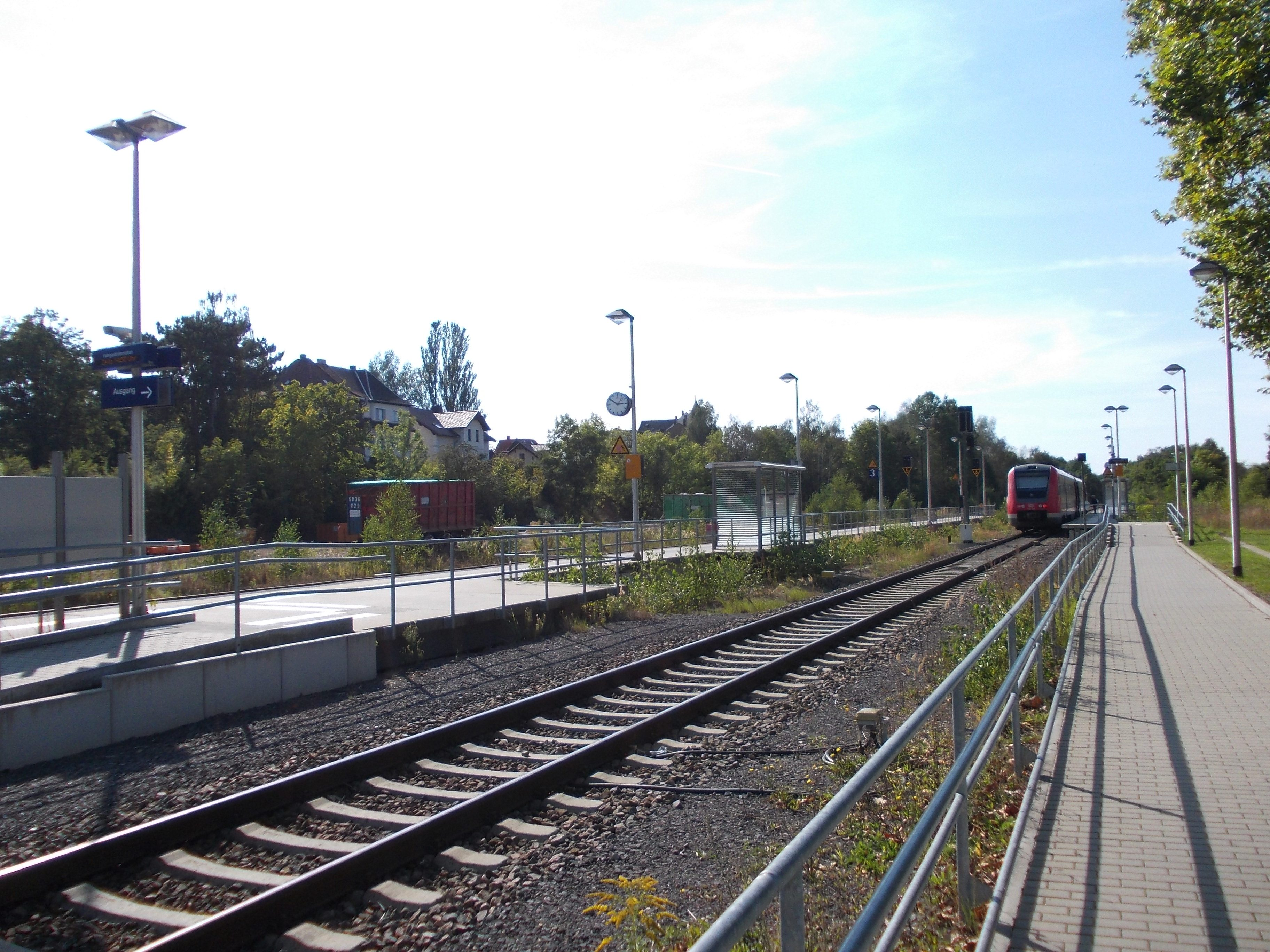 Ronneburg train station (Greiz district, Thuringia)